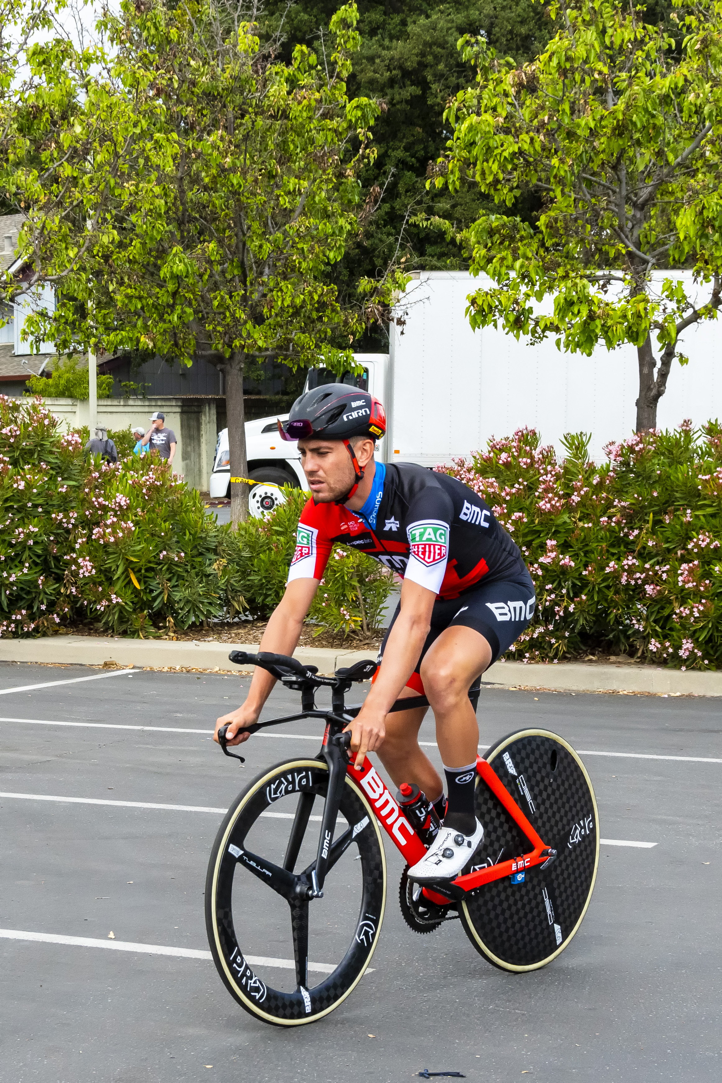 Amgen Tour of California 2018 Stage 4 Time Trial in Morgan Hill UCI World Tour